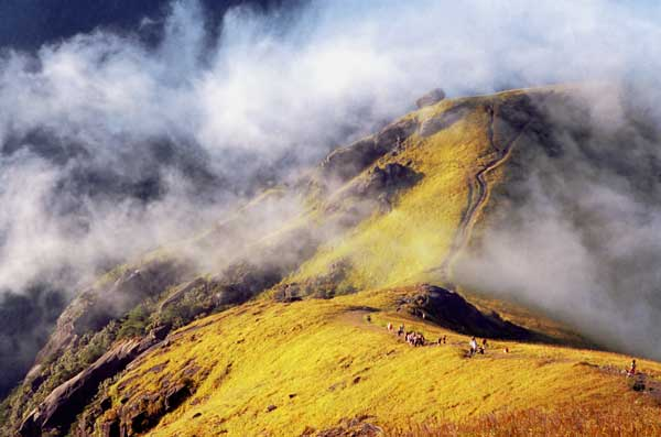 Wu Gong Shan National Park, China. Credits TOOE BY KOKO